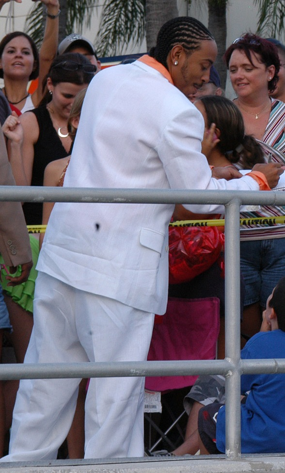 MIAMI (Aug. 29, 2004) -- MTV 2004 Video Music Awards performer Ludacris signs autographs for Coast Guard personnel and dependants onboard Integrated Support Command Miami. Pependeants lined up to see the stars two hours before they arrived at the Coast Guard base to be escorted on yachts to the American Airlines Arena. USCG photo by PA2 Anastasia Burns.